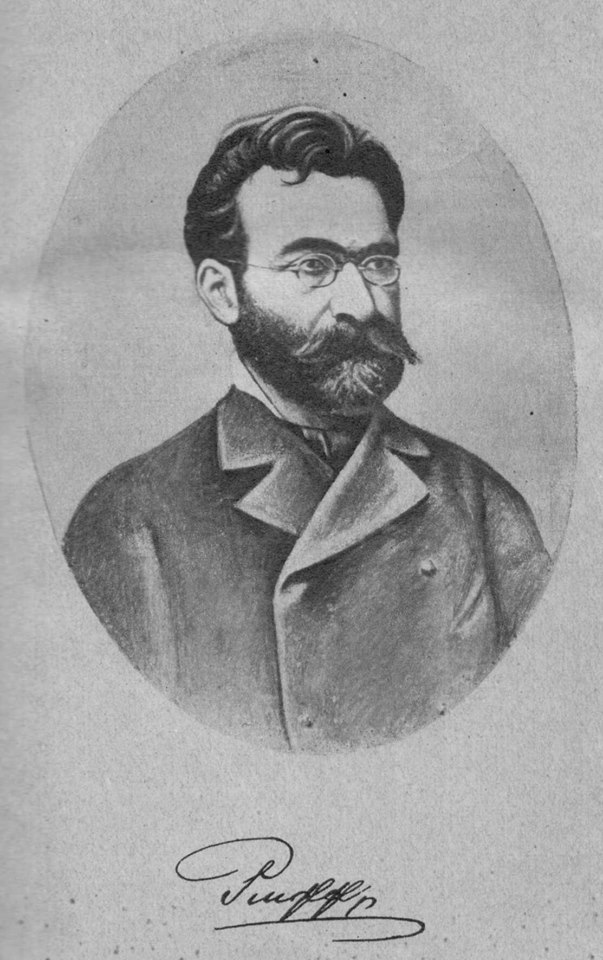 Raffi portrait with signature.